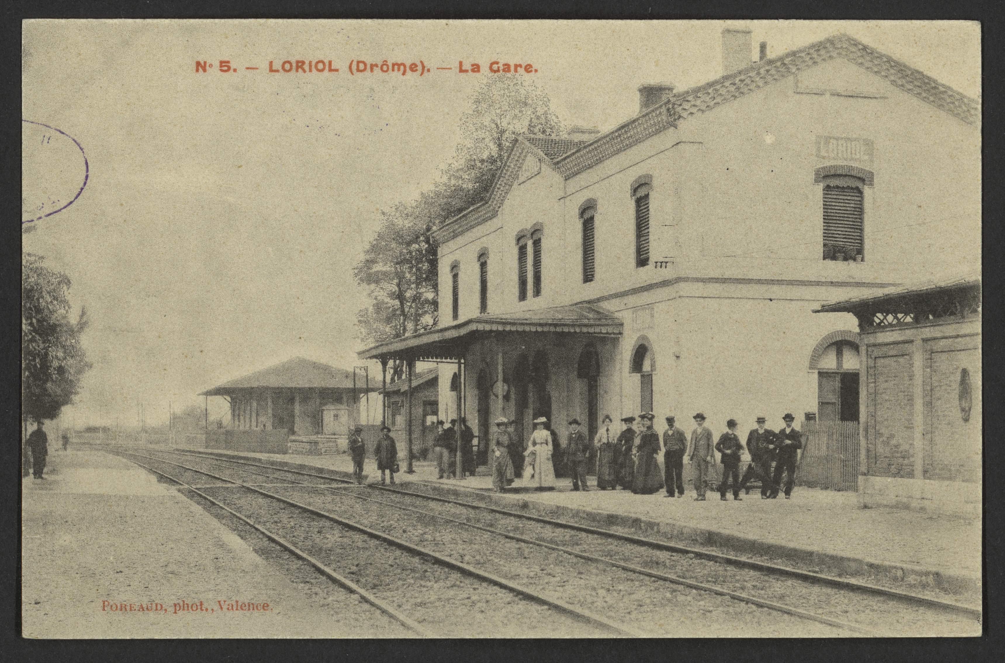 CA 1900